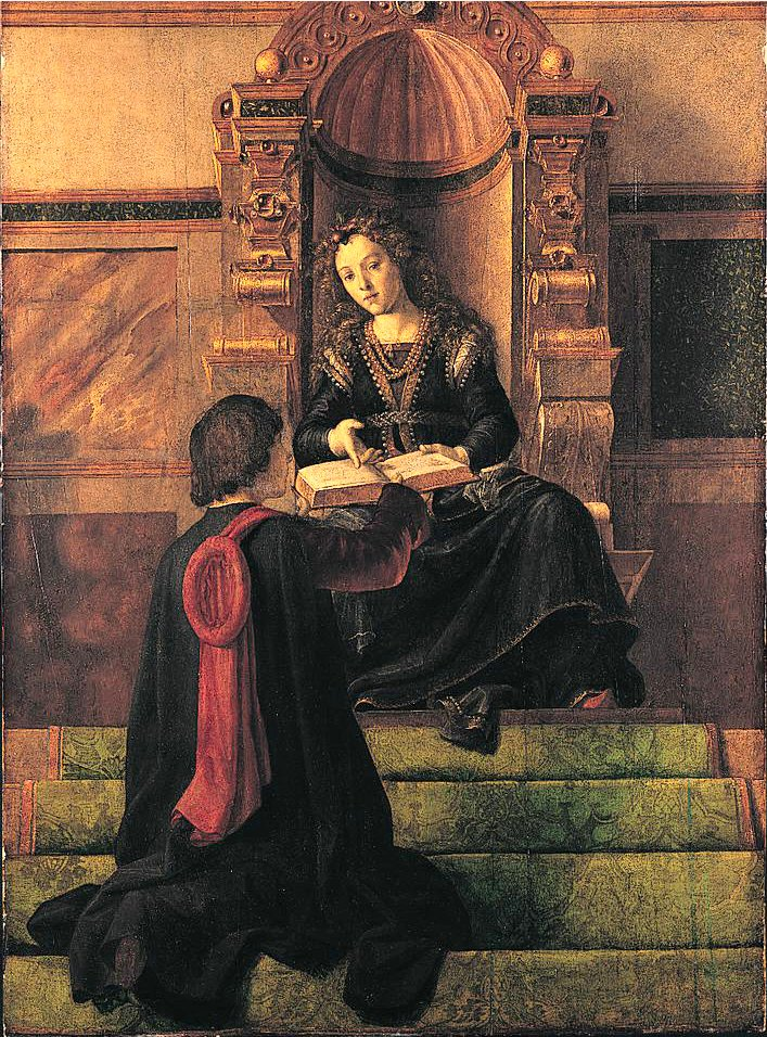 Seven (?) Liberal Arts: a young man (Constanzo Sforza?) before Music (National Gallery, London). Another painting from this cycle, with Federigo da Montefeltro before Rhetoric was destroyed in Berlin in 1945